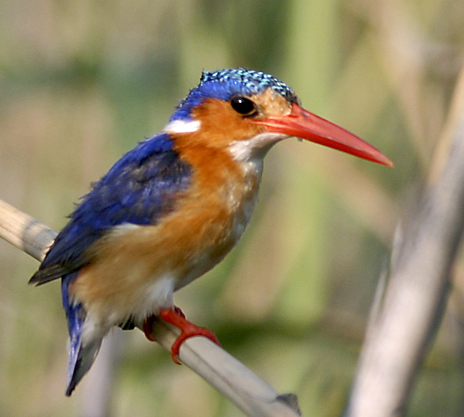 This photograph of a Malachite Kingfisher was taken in the Okovango Delta in Botswana, Africa.